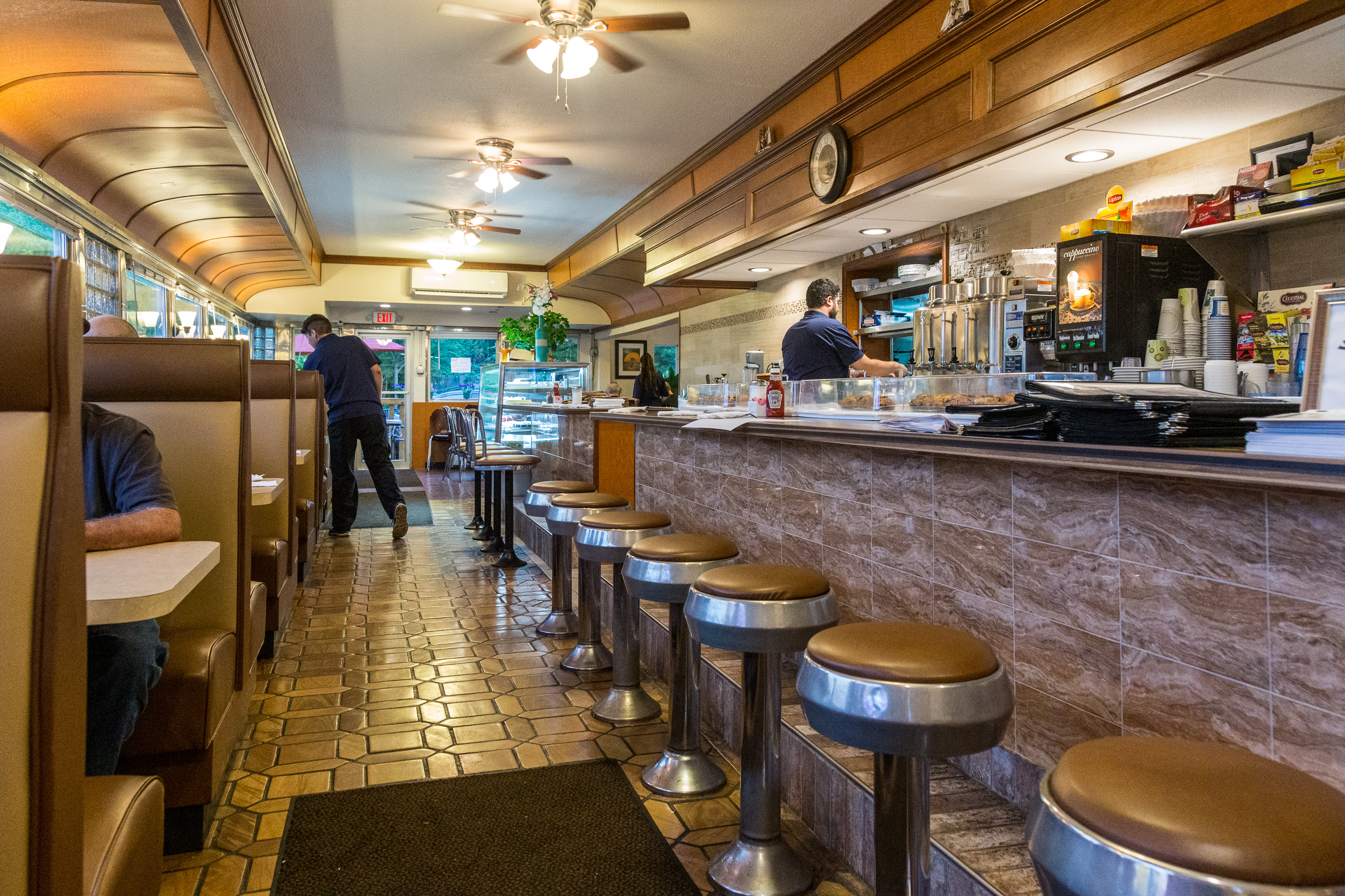 Munson Diner, Downtown Liberty, New York, interior view.